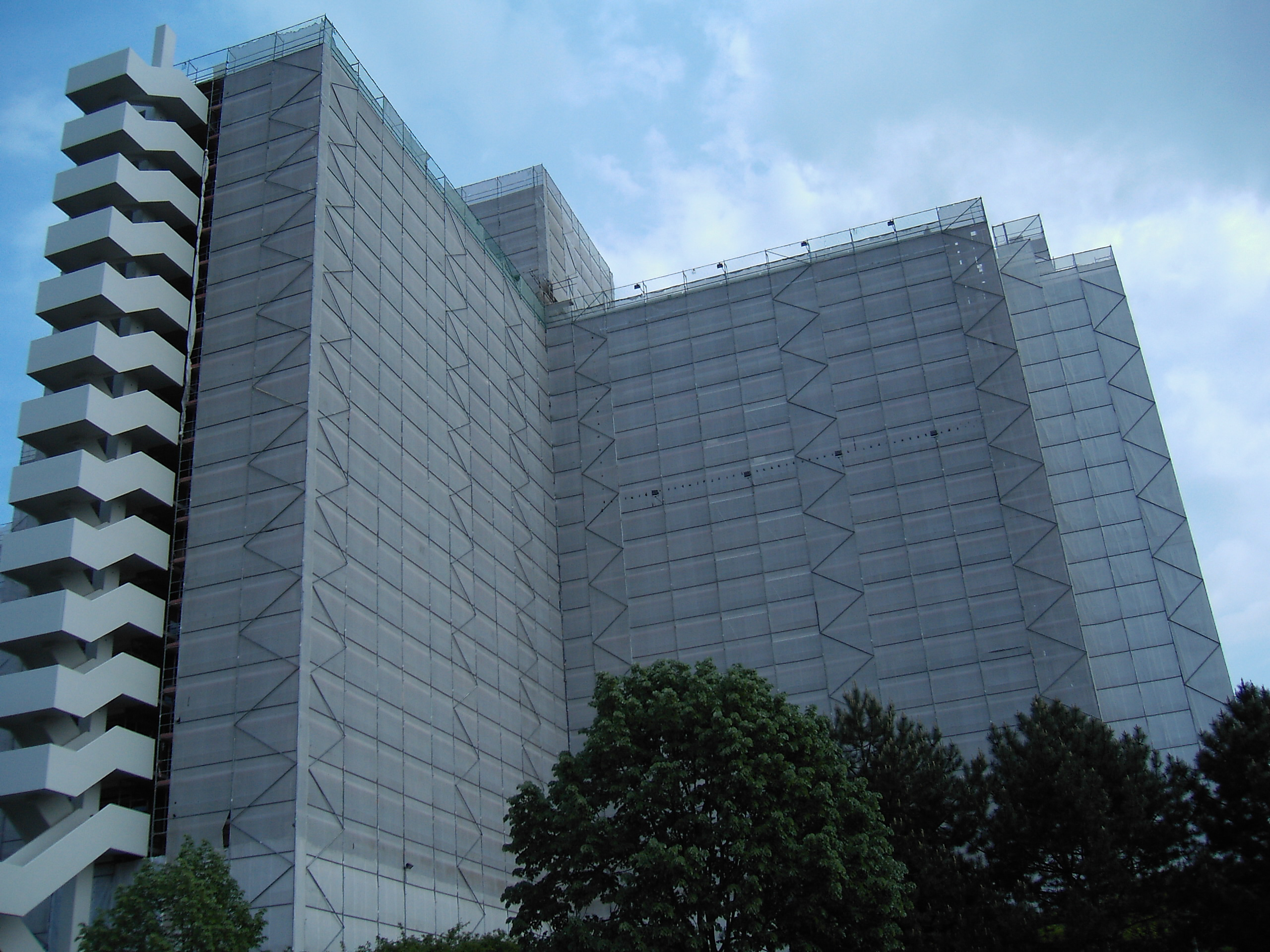 One building of the Kreuzbauten (“Crossbuildings”) in Bonn.